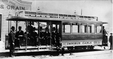 A 19th century streetcar owned by the Omnibus Railway Company in San Francisco